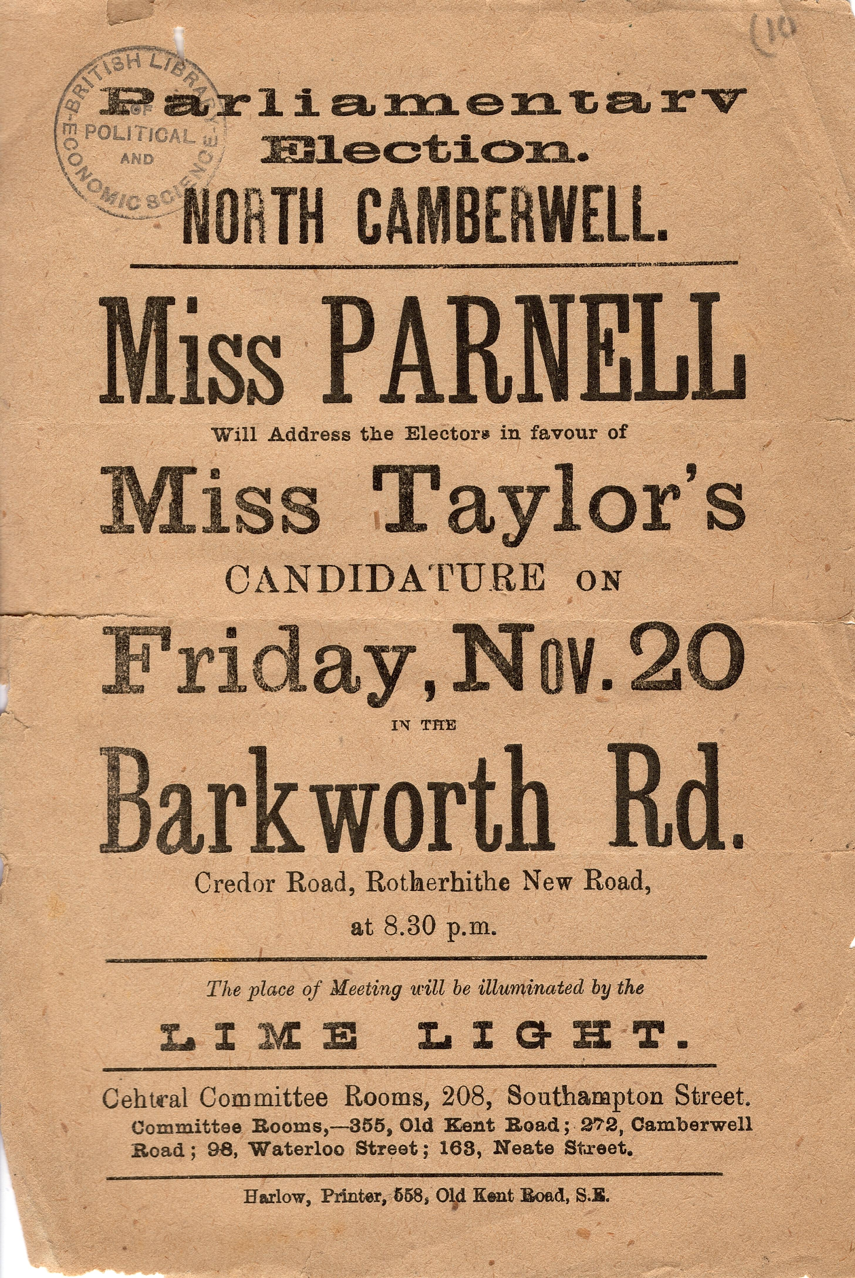 Mill Taylor 7 10 LSE Archives